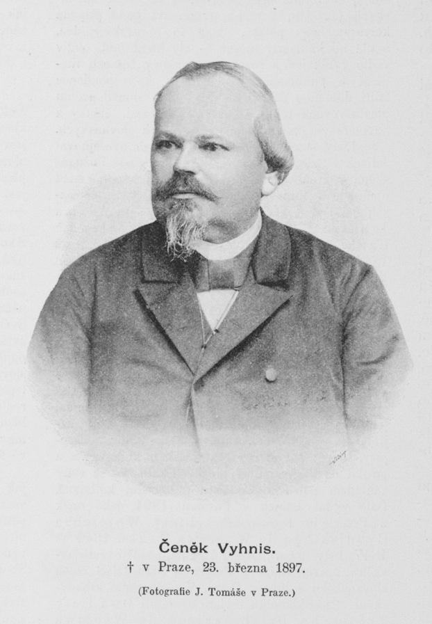 Portrait of Čeněk Vyhnis (1842-1897), Czech high-school teacher, classical philologist and writer.